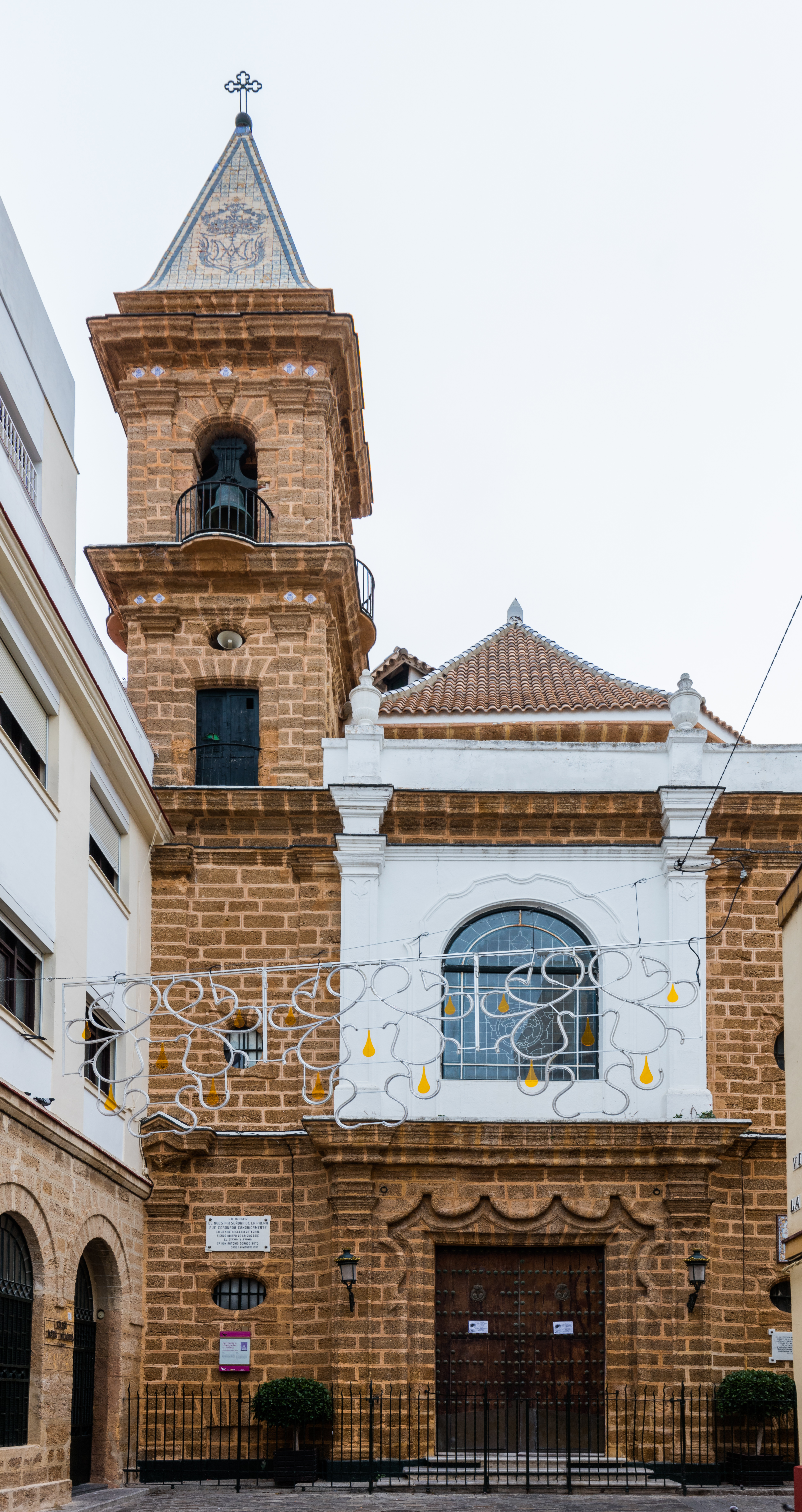 Church of La Palma, Cádiz, Spain